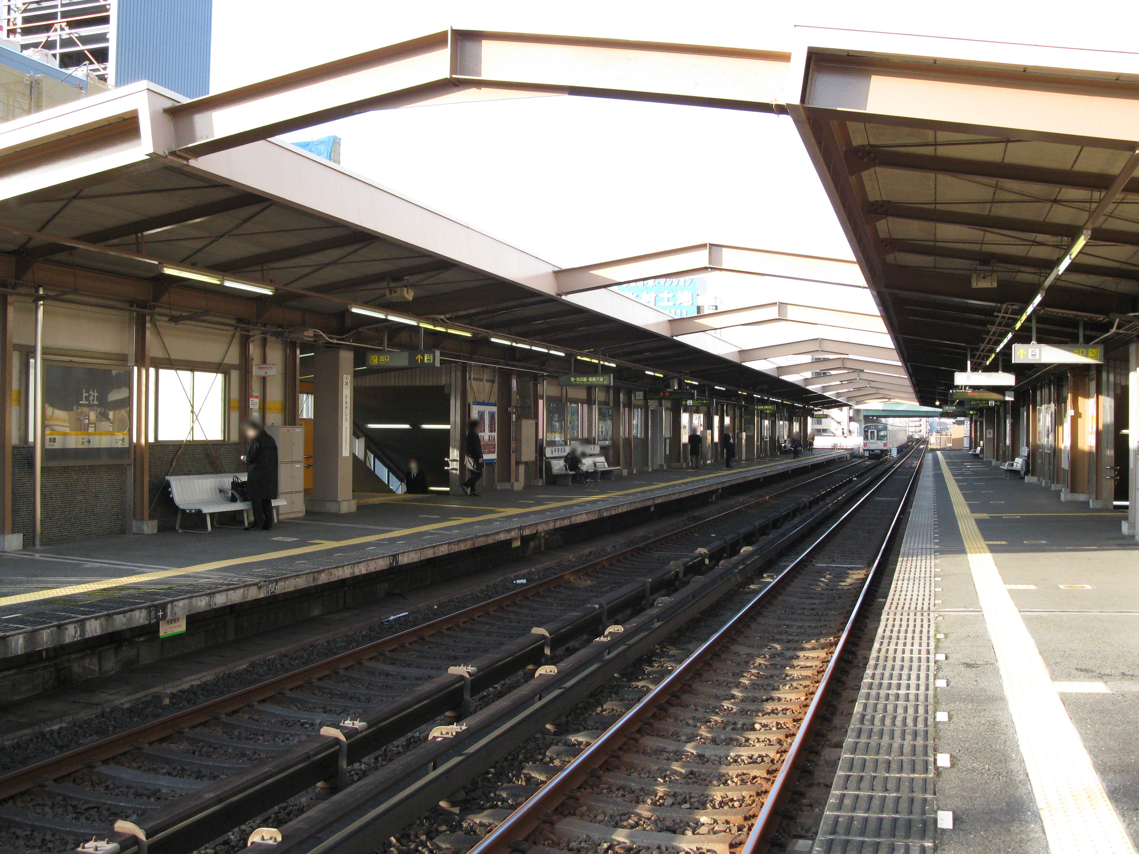 Kamiyashiro Station platform (Nagoya Municipal Subway Higashiyama Line)